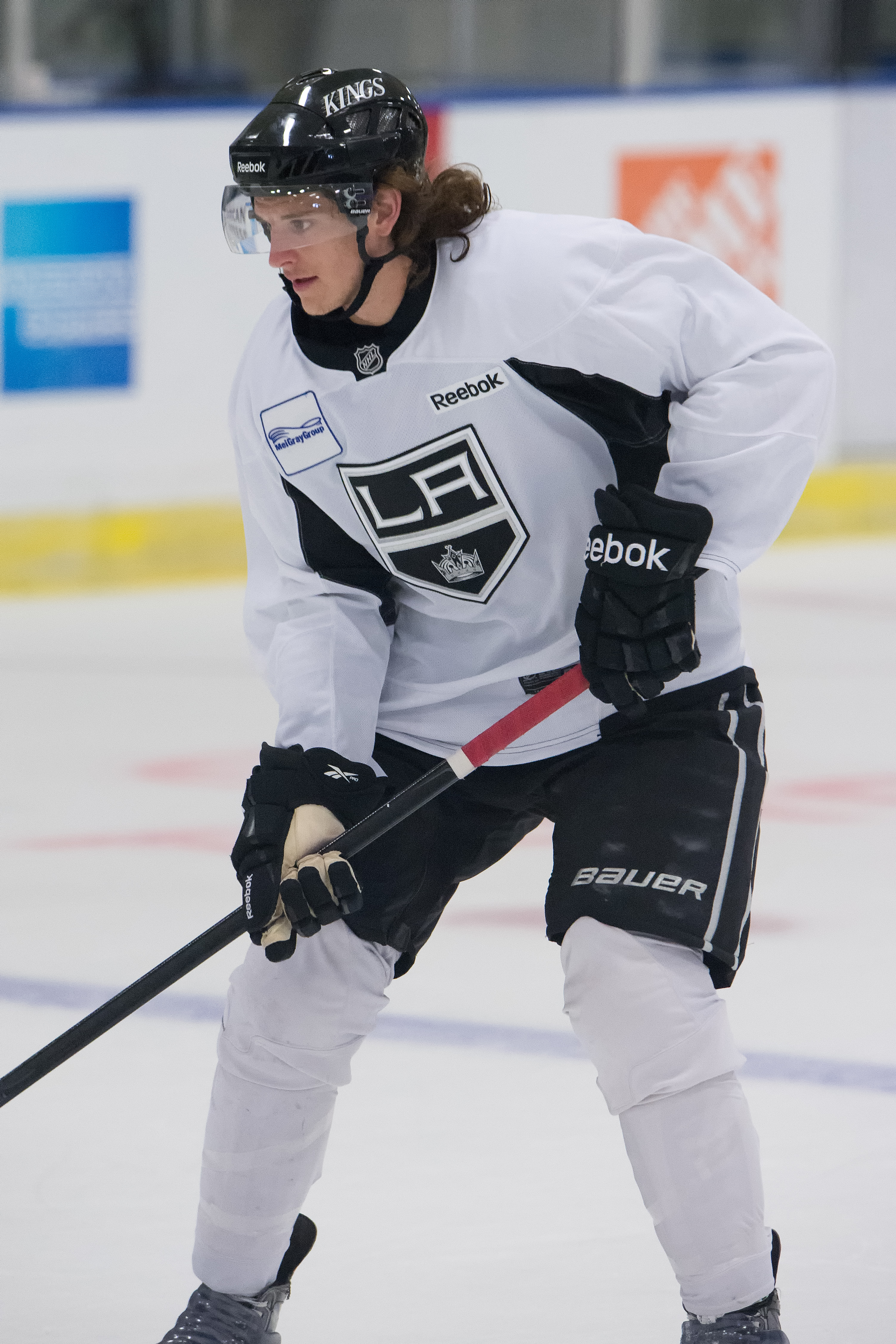 LA Kings Development Camp